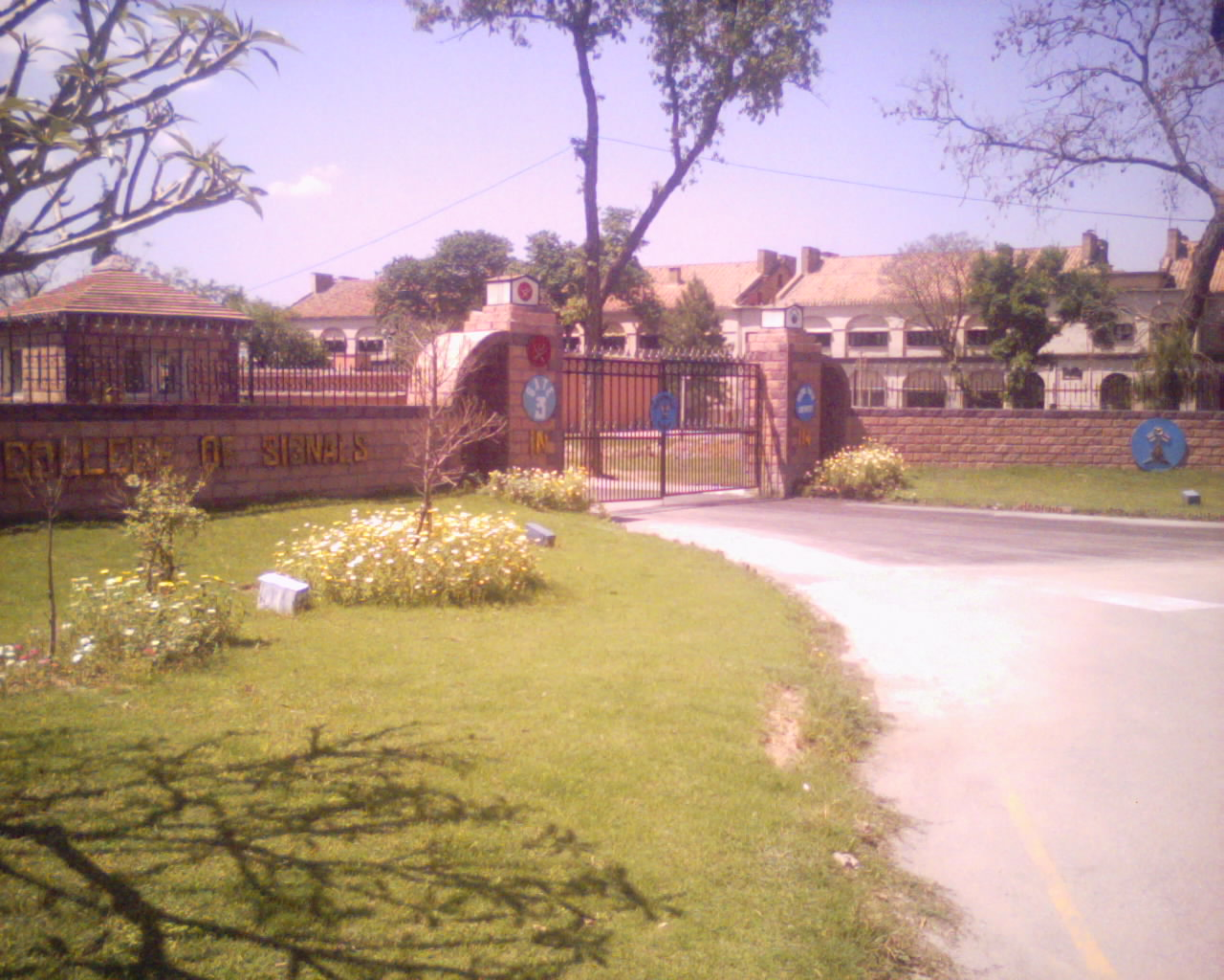 An outer view of Military College of Signals (MCS) located at Humayun road Rawalpindi Pakistan.